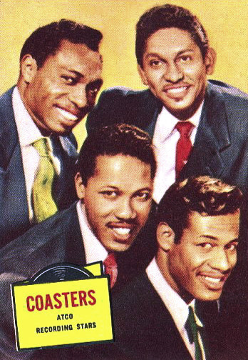 Trading card photo of The Coasters. In 1957, Topps gum cards issued a series of movie stars, television stars and recording stars. They were part of their recording stars cards.